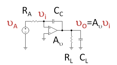 Op Amp circuit with capacitor feedback